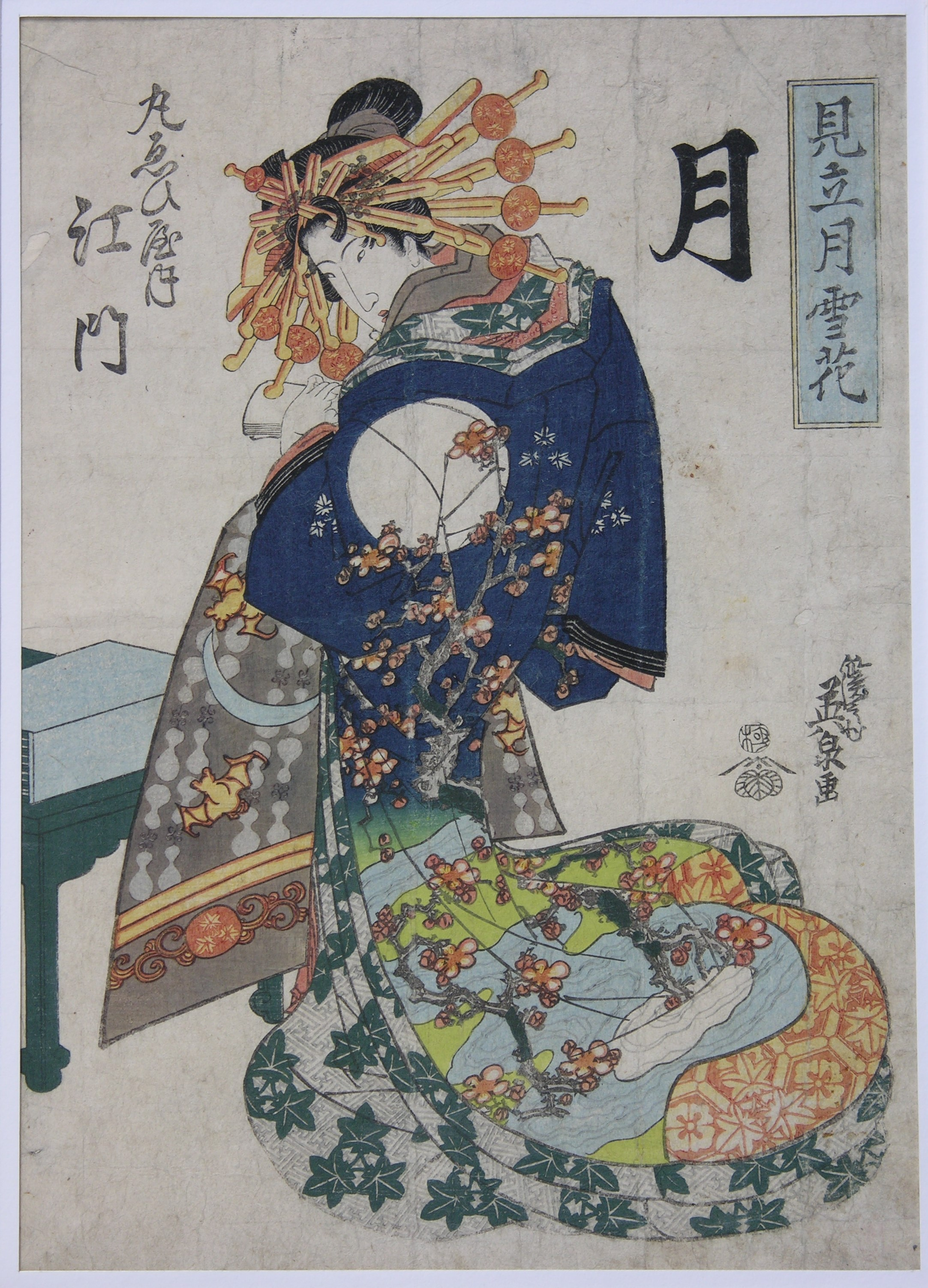 Ukiyoe-print